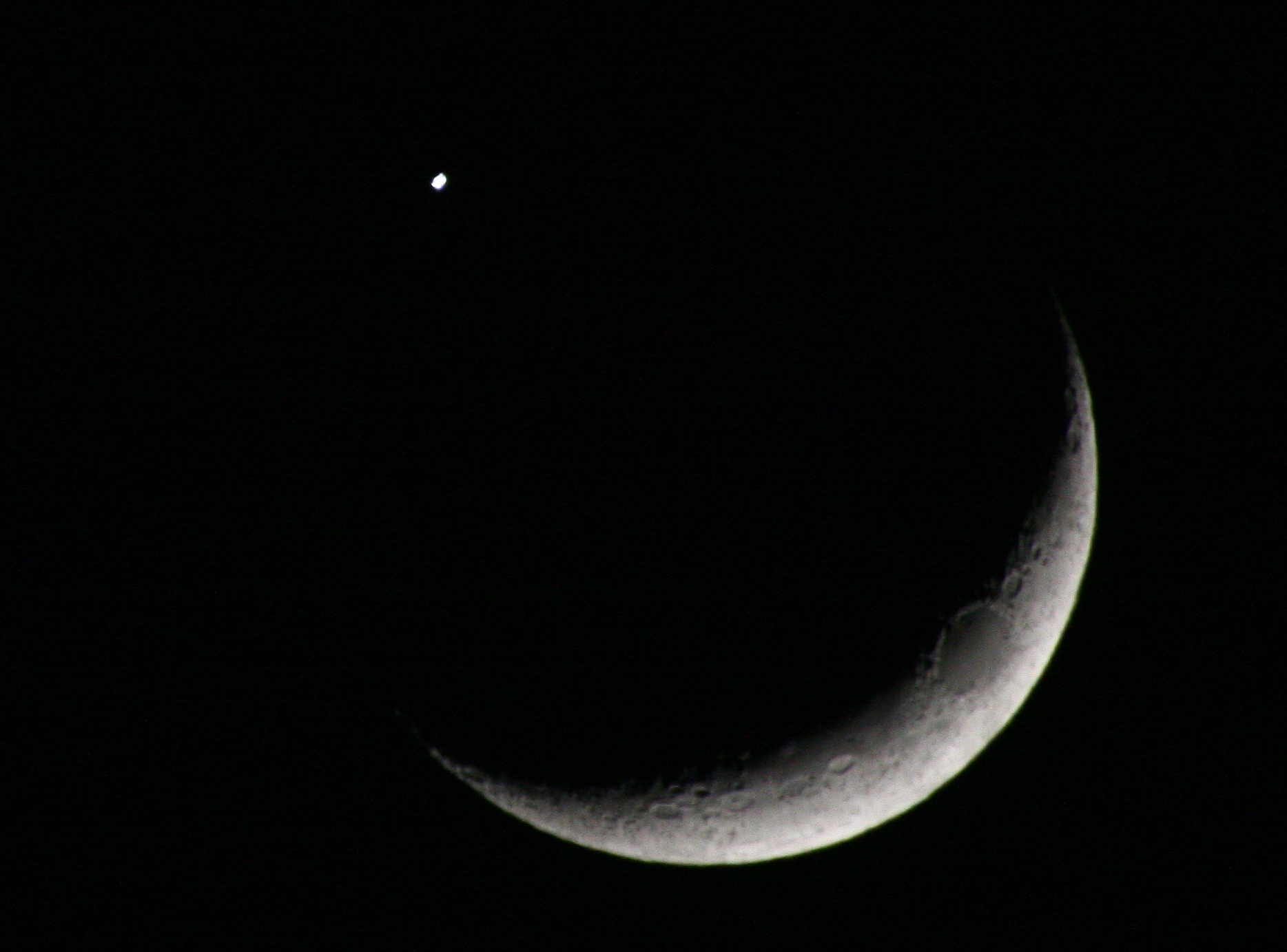 Planet Venus before being eclipsed by the moon. As seen from Sharjah, UAE on 18-June-2007 20:05:13